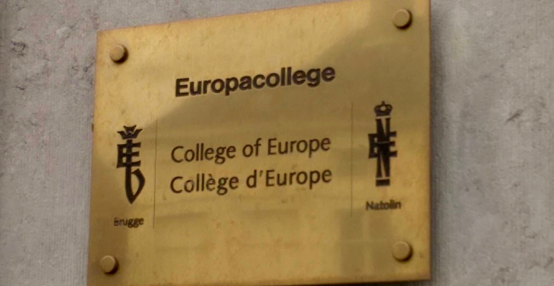 Presentation of the College of Europe 2